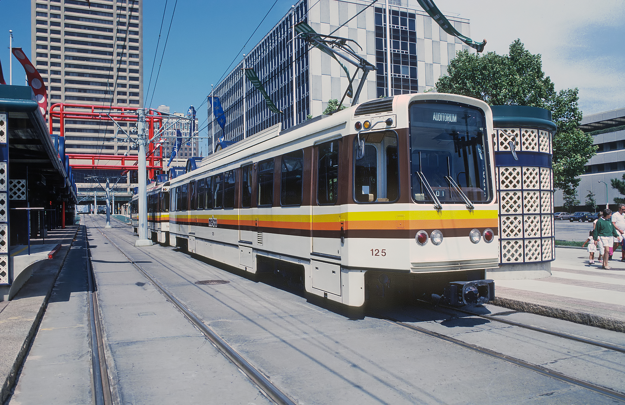 Buffalo Metro Rail train at Erie Harbor Canal station in August 1988